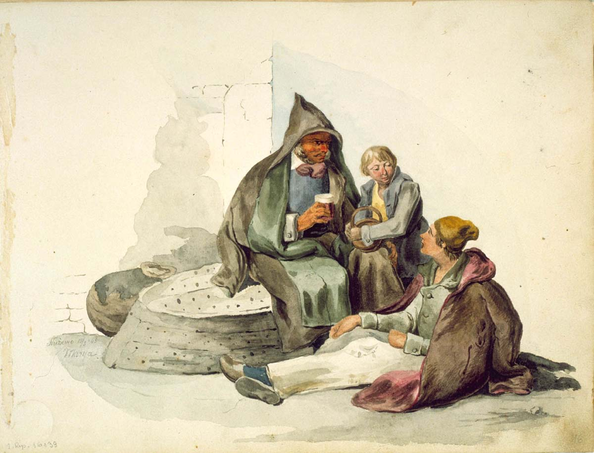 Maria Wodzińska "Two man and boy" water-colour on paper. 1836